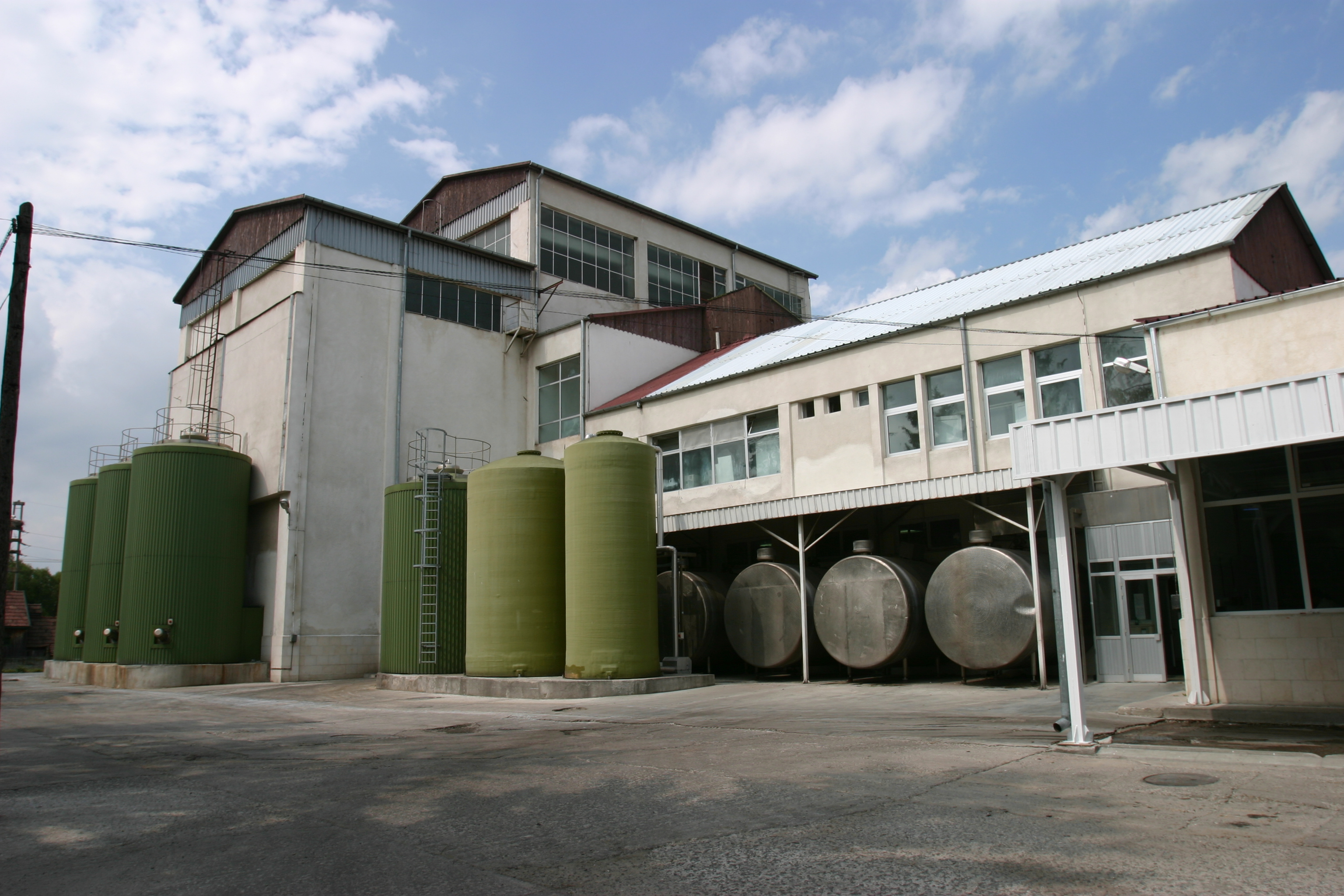 Powdered milk factory, new building in Remetea, Harghita